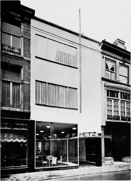 Gerrit Rietveld (architect). Metz & Co., The Hague.